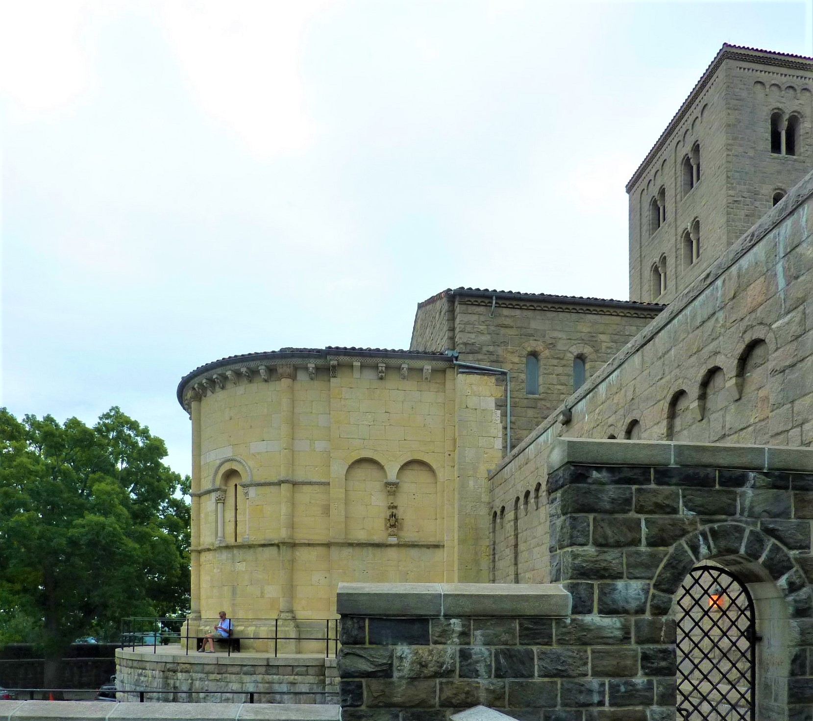 Fuentidueña Chapel, The Cloisters, New York